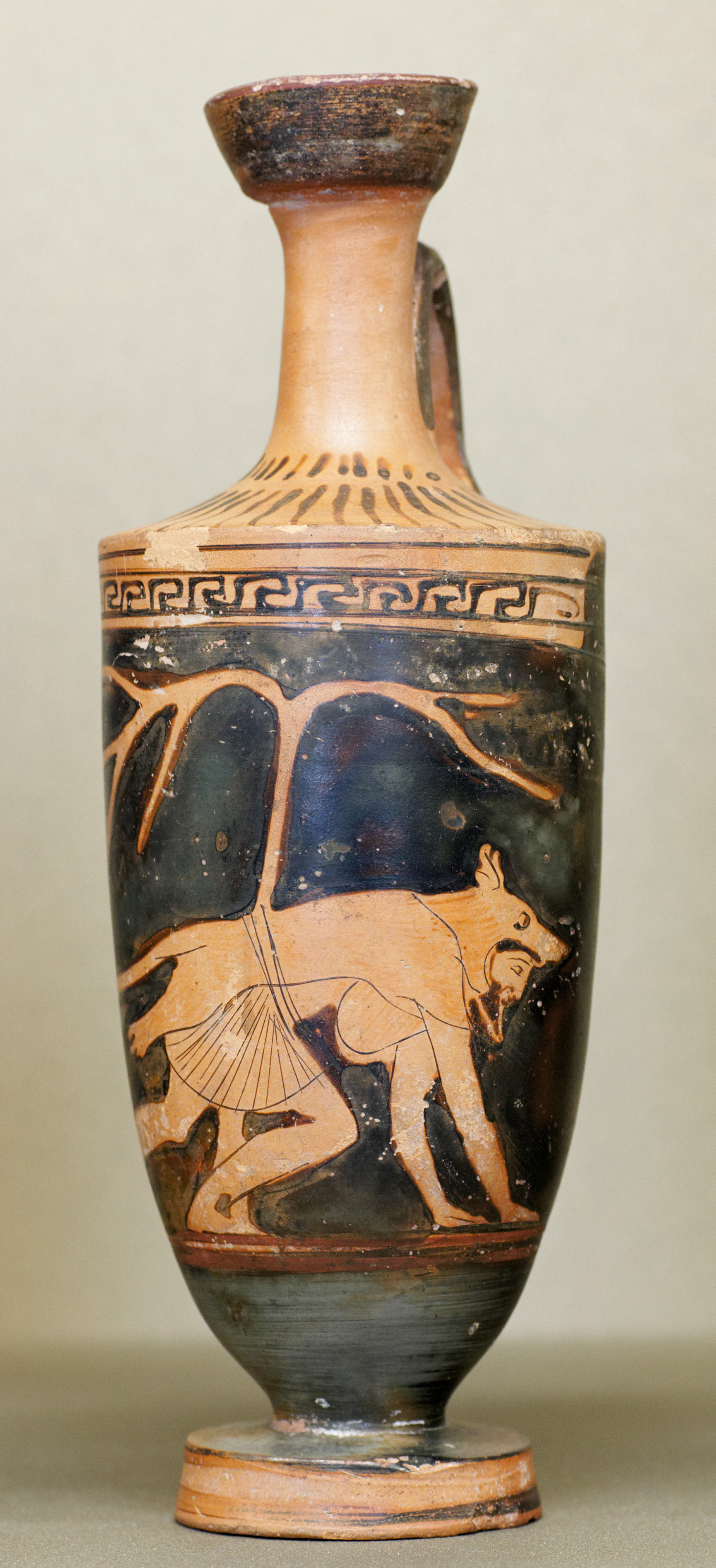 Dolon. Detail from an Attic red-figure lekythos.